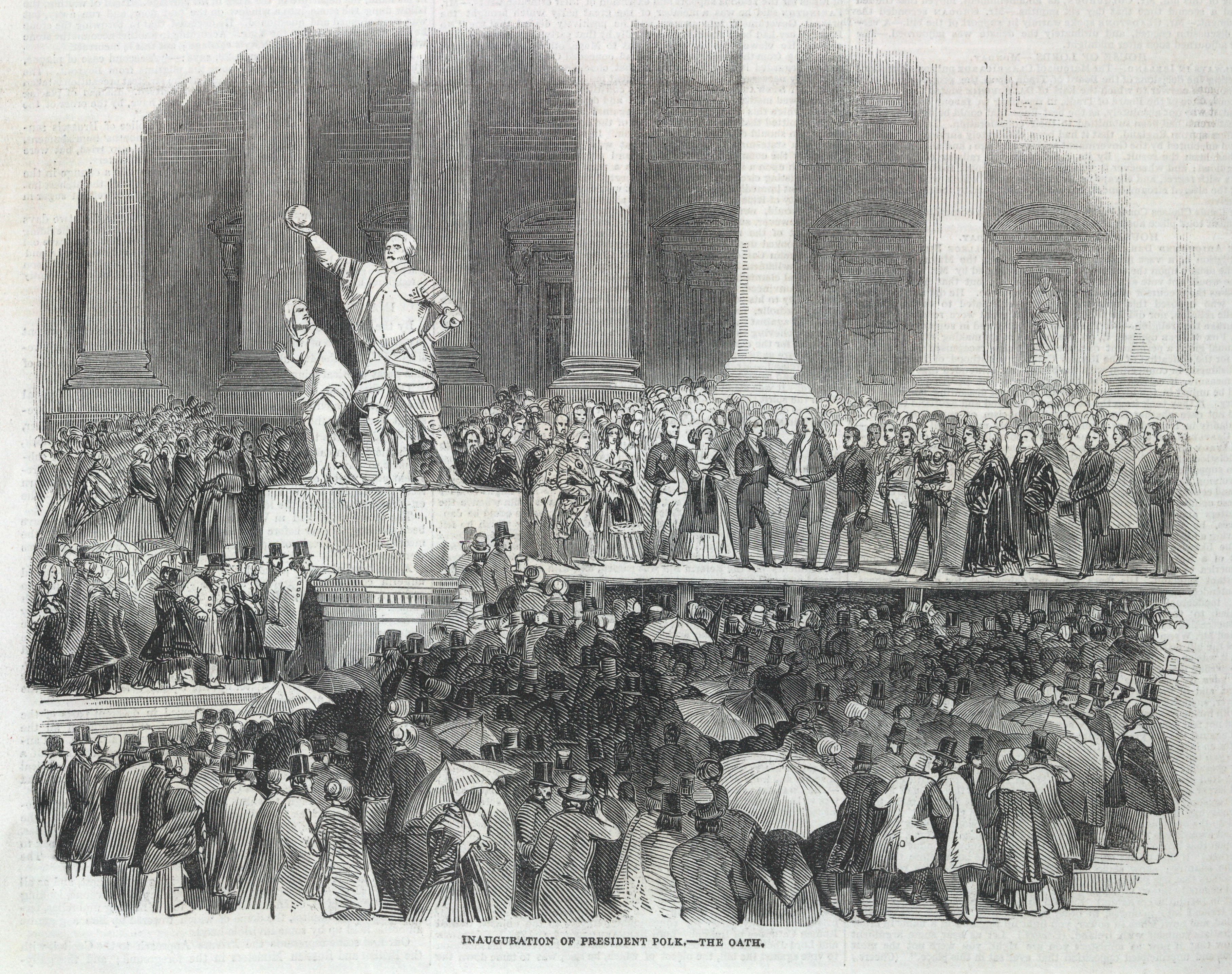 Scan of a page from the Illustrated London News, v. 6, April 19, 1845, with the first newspaper illustrations of an American presidential inauguration this being for James K. Polk on March 4, 1845.